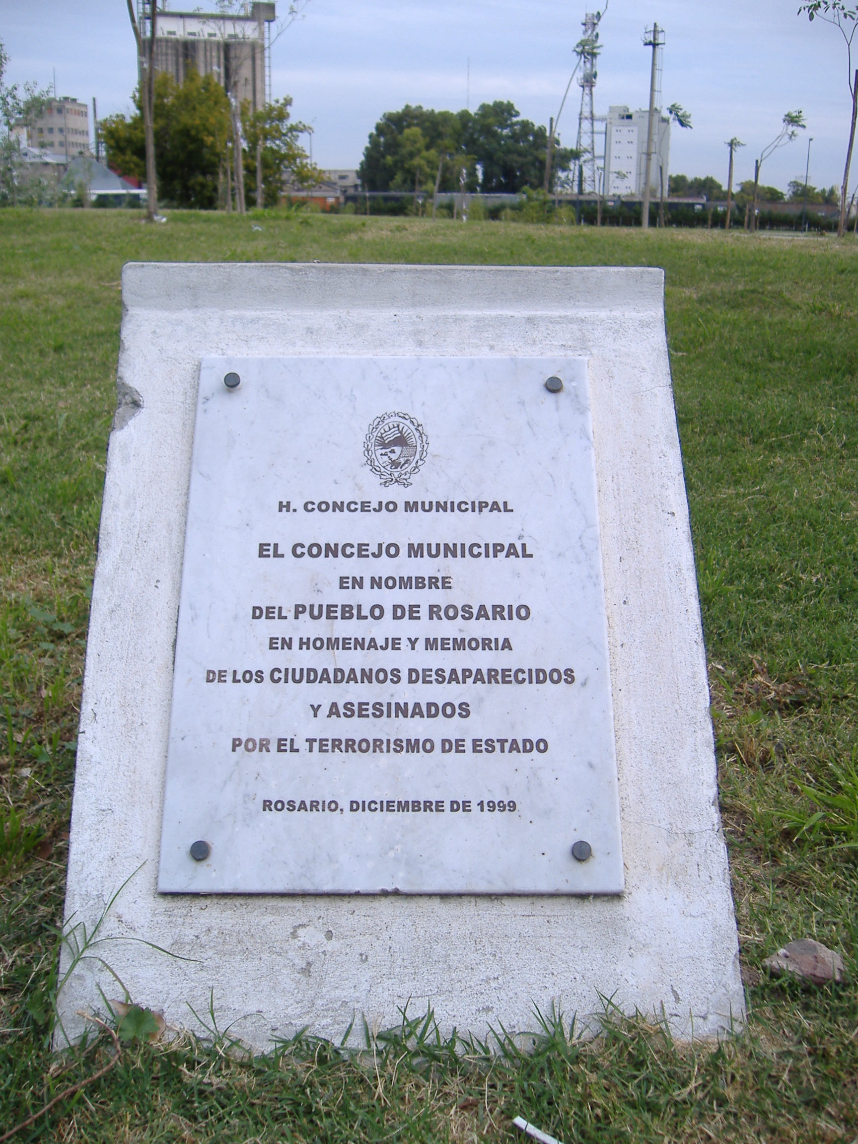 "The Municipal Council, in the name of the people of Rosario, in hommage and memory of citizens disappeared and murdered by State terrorism. Rosario, December 1999." I took this photo on October 2005.